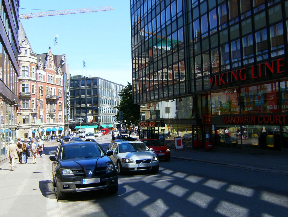 The northeastern section of the street "Lönnrotinkatu", Helsinki, Finland